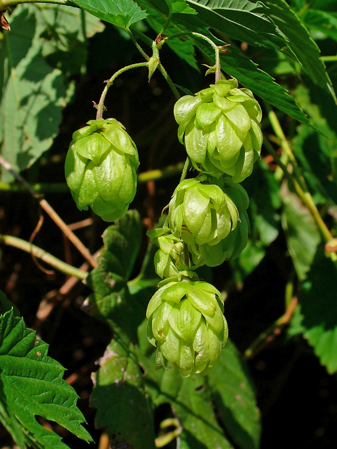 Common Hop, infrutescences; Karlsruhe, Germany.